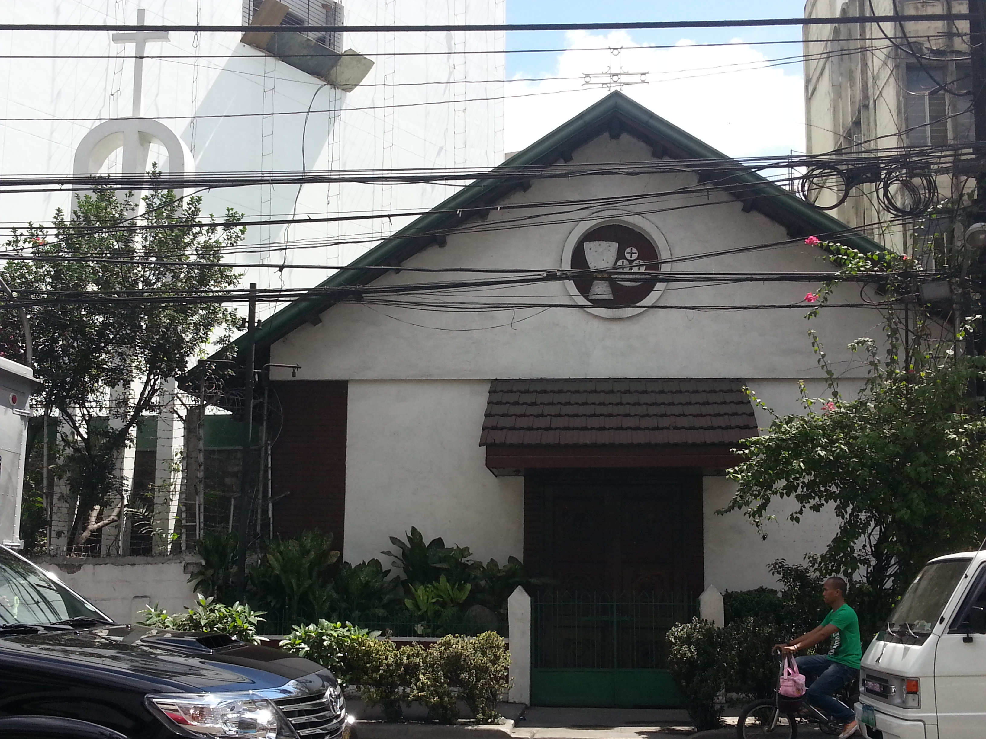 Facade